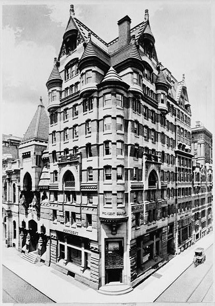 Photograph of the new Provident Life & Trust Company Office Building, northwest corner of 4th & Chestnut Streets, Philadelphia, PA. The original Provident building with new pointed roof, is visible on the left.